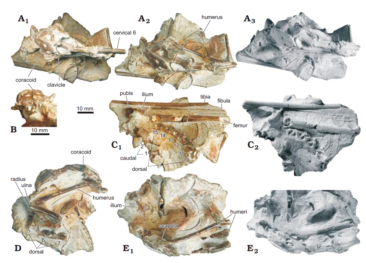 Curled skeleton ZPAL AbIII/2512, holotype of long-necked reptile Ozimek volans from Krasiejów, lower Upper Triassic, preserved in a limestone concretion. A. Neck and pectoral girdle in ventral (A1) and oblique right lateral (A2, A3) views. B. Pectoral girdle in anterior view. C. Thoracic vertebrae, ilium, and long bones of the hind leg. D. Dorsal vertebrae, coracoid, and long bones of the front leg. E. Humeri, scapula, ilium. Photographs of specimens coated with ammonium chloride (A3, C2, E2).